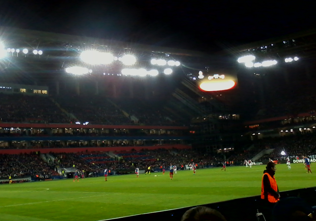 Europa League 2017-2018 - CSKA Moscow v Arsenal London, 12 April 2018